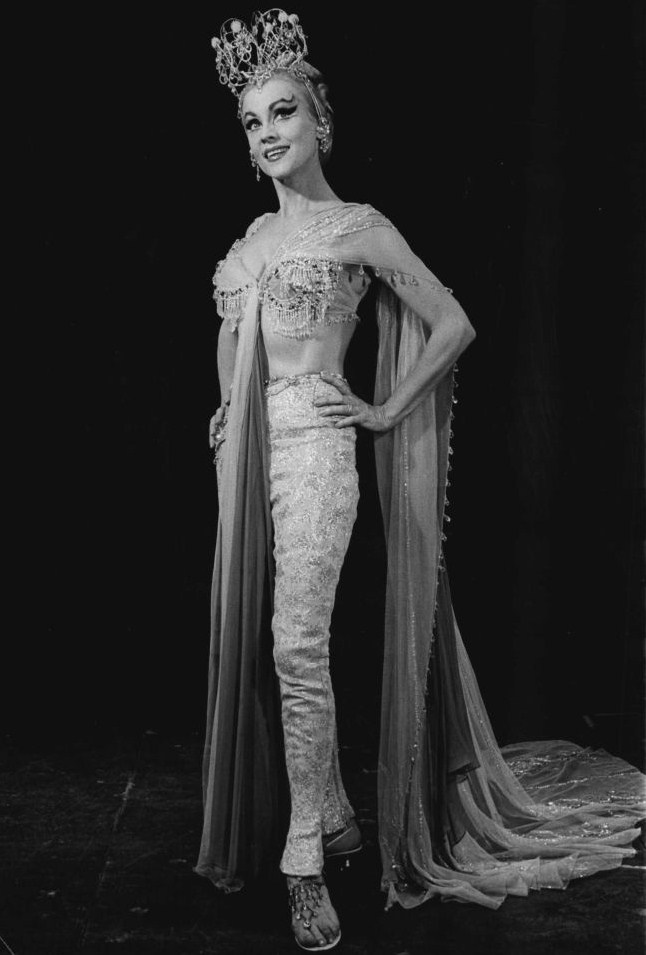 Anne Jeffreys in the musical Kismet (Lincoln Center, New York) - publicity still (original image cropped : see source)